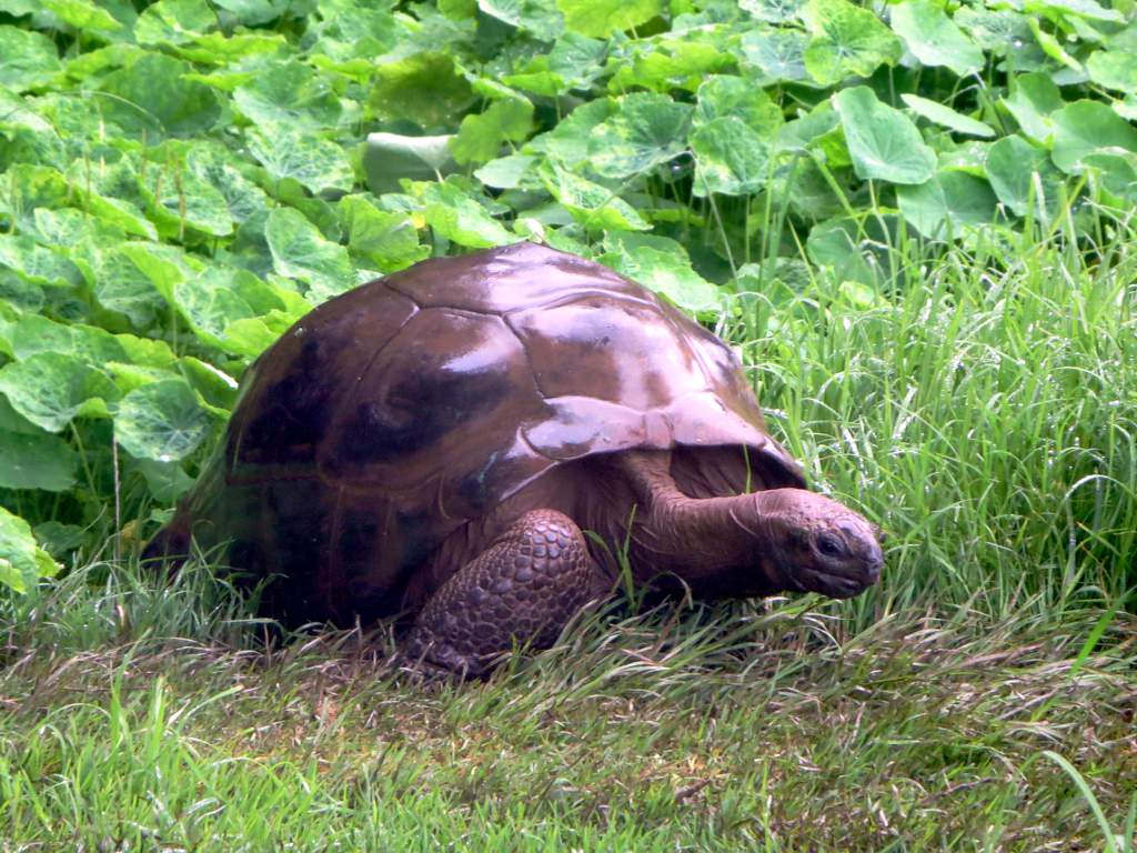 The world's oldest reptile, Jonathan the tortoise, resides on the grounds of Plantation House. The animal may already have been 50 years old when it arrived on St Helena Island from Seychelles in 1882.